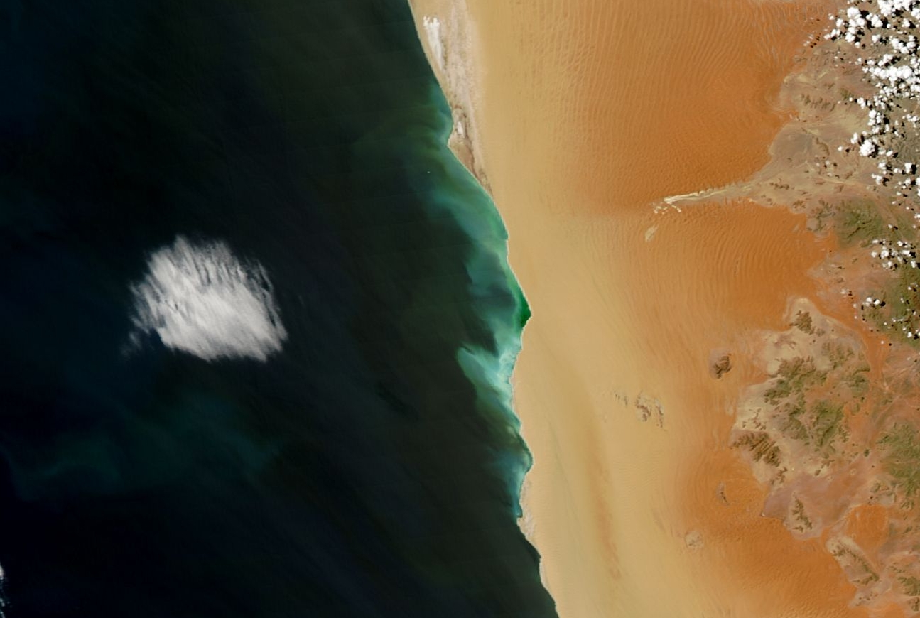 Hydrogen sulfide emissions off the Namibian coast.